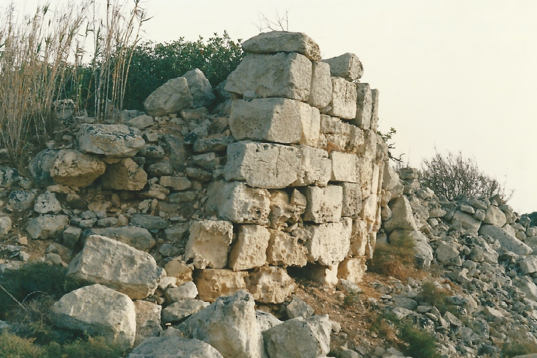 East & North sides